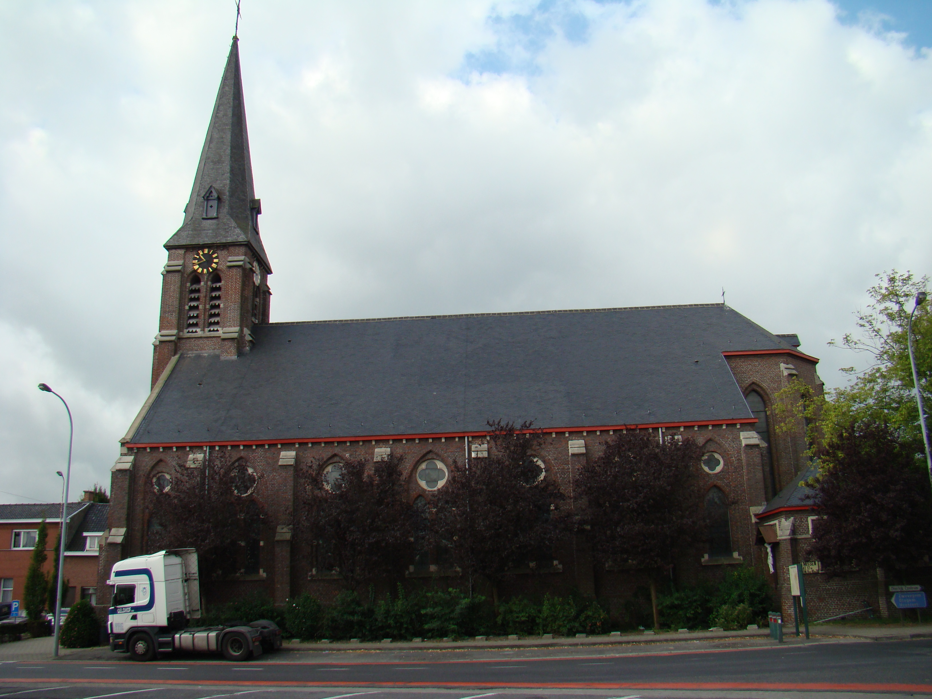 Onze-Lieve-Vrouw Onbevlekt Ontvangen church Sint-Lodewijk (Deerlijk, West Flanders, Belgium)